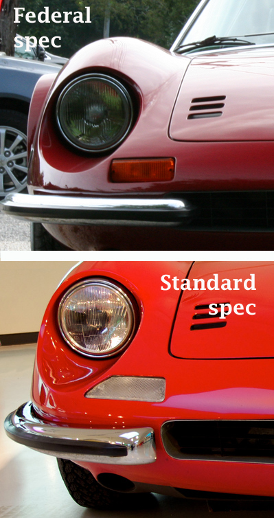 Comparison of the Dino 246's federal marker light setup and that used for the rest of the world.